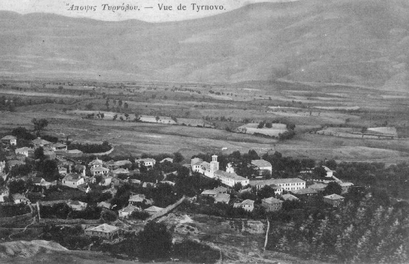 View of Trnovo, Macedonia